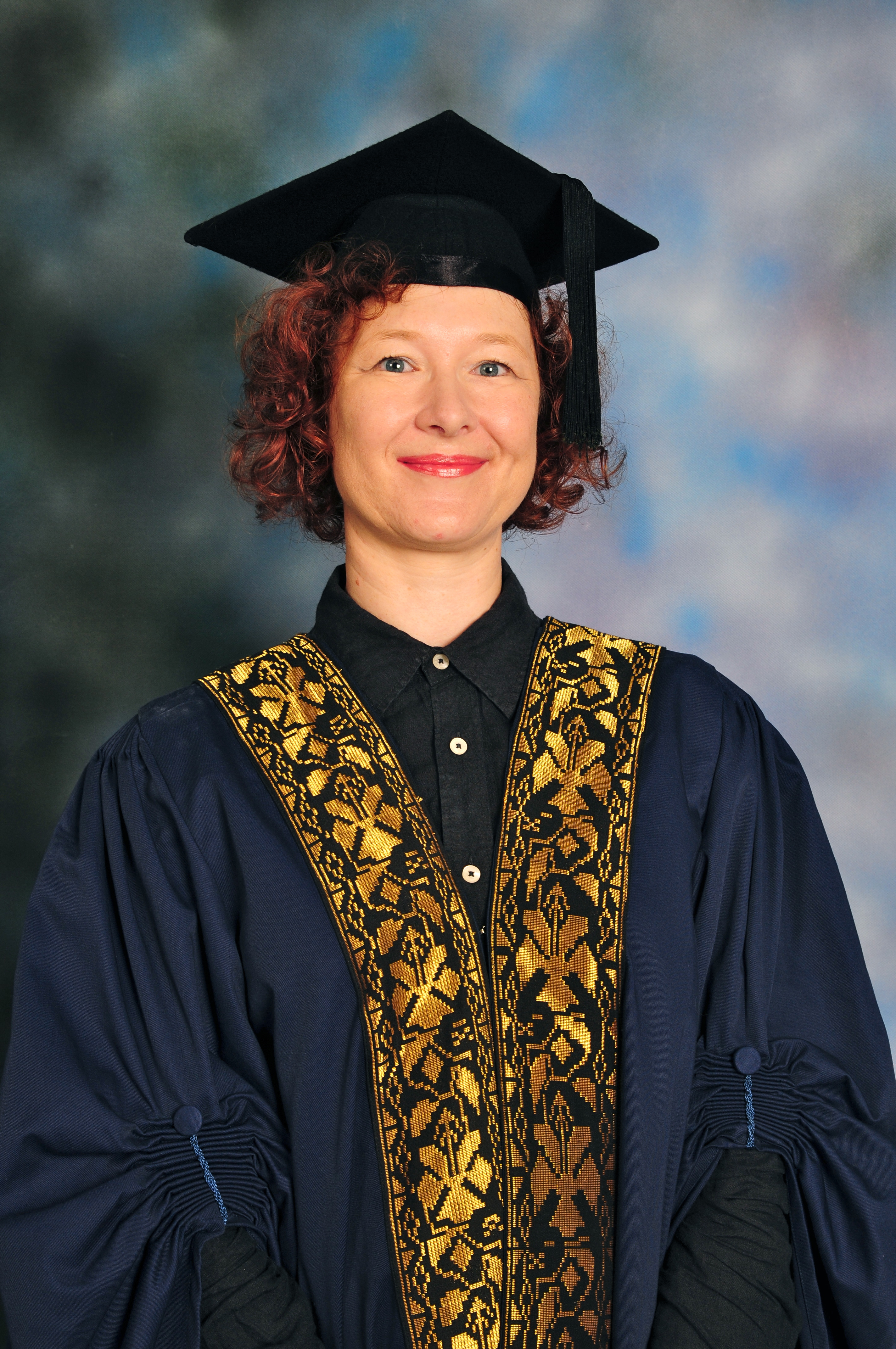 Ille C. Gebeshuber, Prof. Dipl.-Ing. Dr. techn. Professor Universiti Kebangsaan Malaysia Engineering Faculty The National University of Malaysia